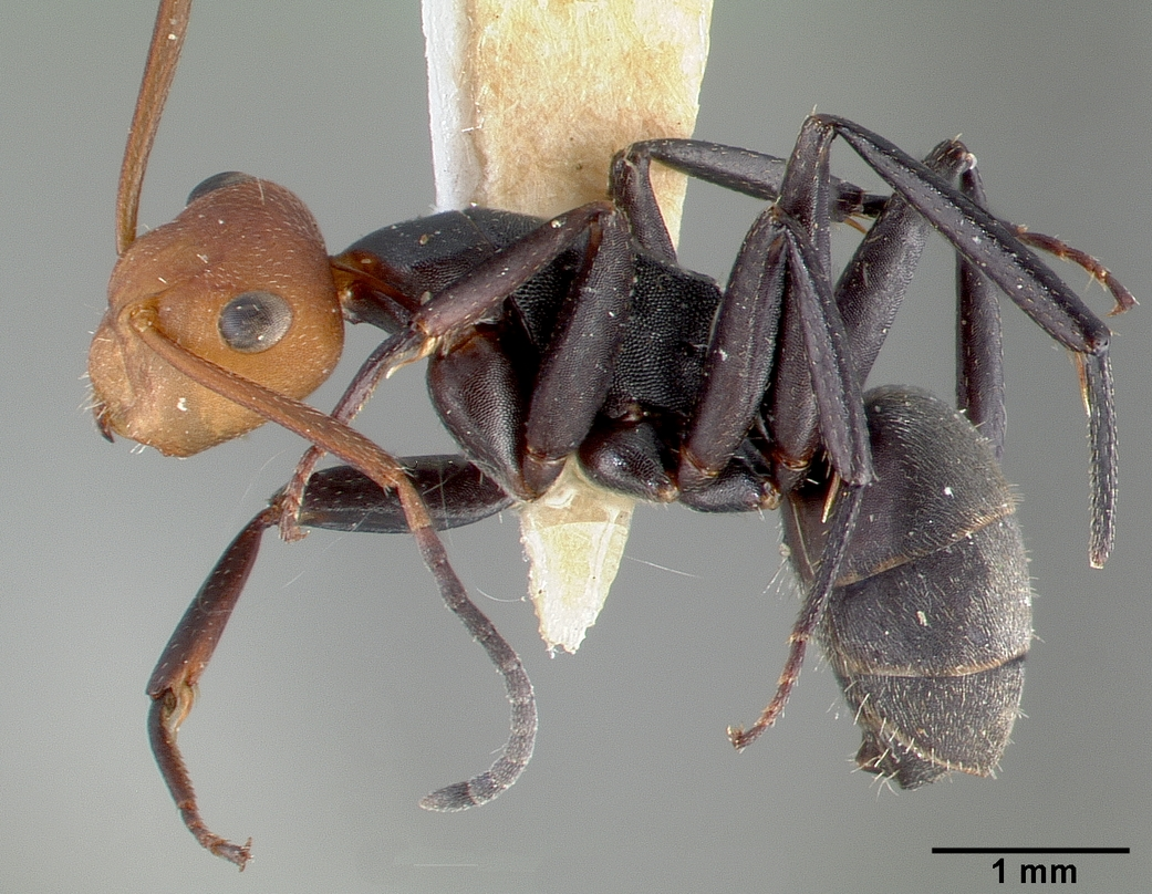 Profile view of ant Camponotus rectangularis willowsi specimen castype03683.